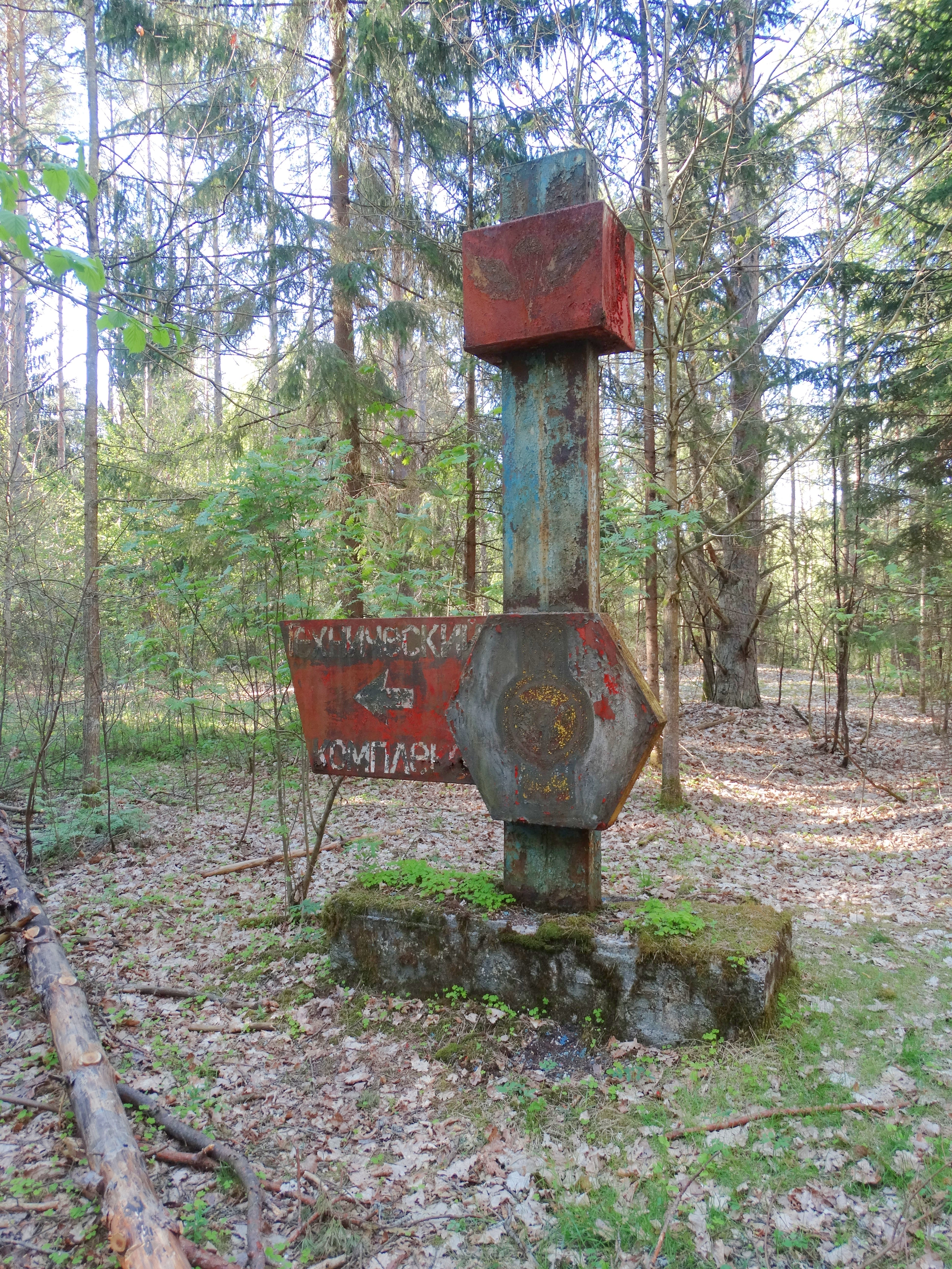 Soviet-eras ign "Technical complex", Kazlų Rūda municipality, Lithuania